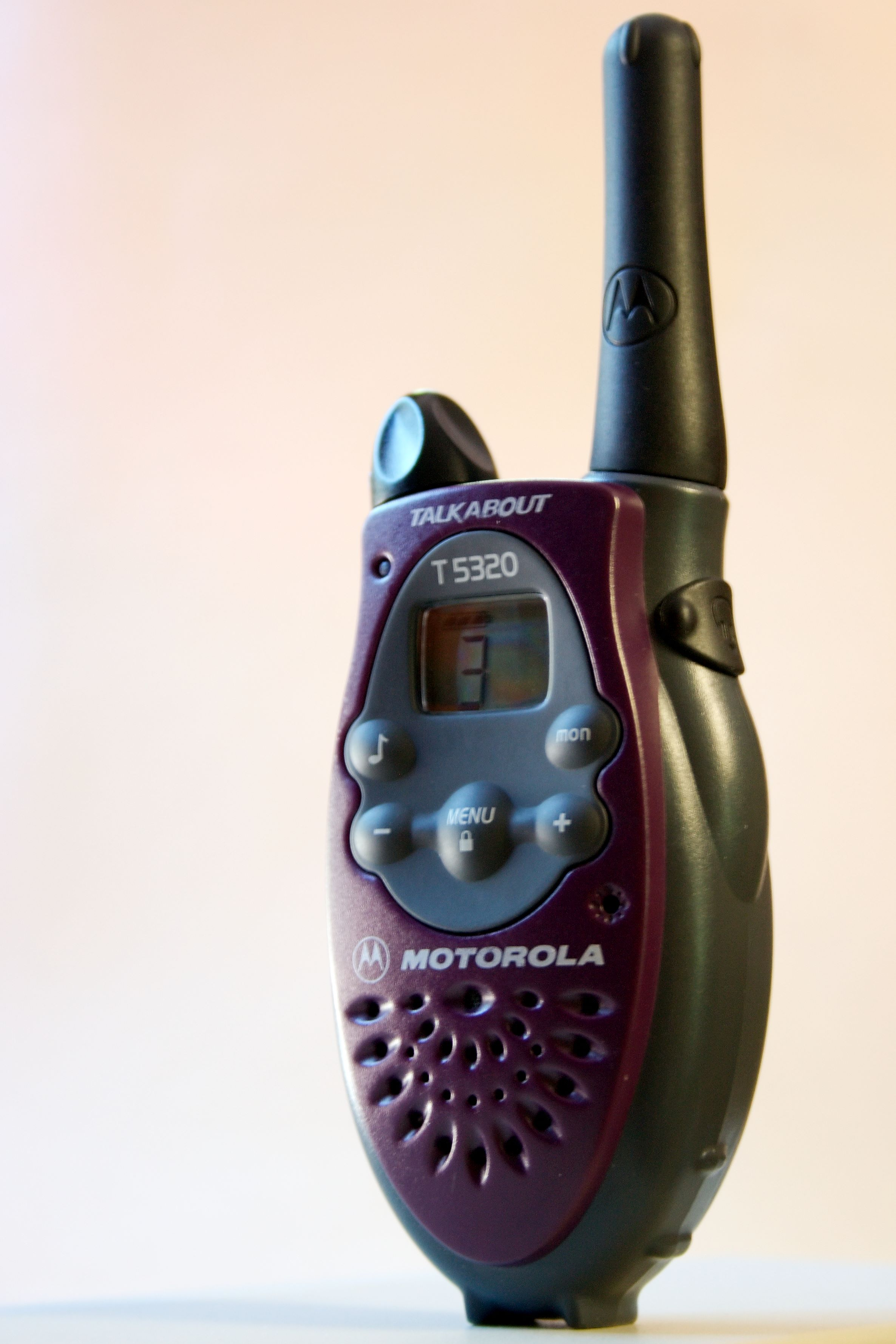 Family Radio Service. Need better lighting and a tripod. I loaned two of these at BarCamp Milwaukee2.